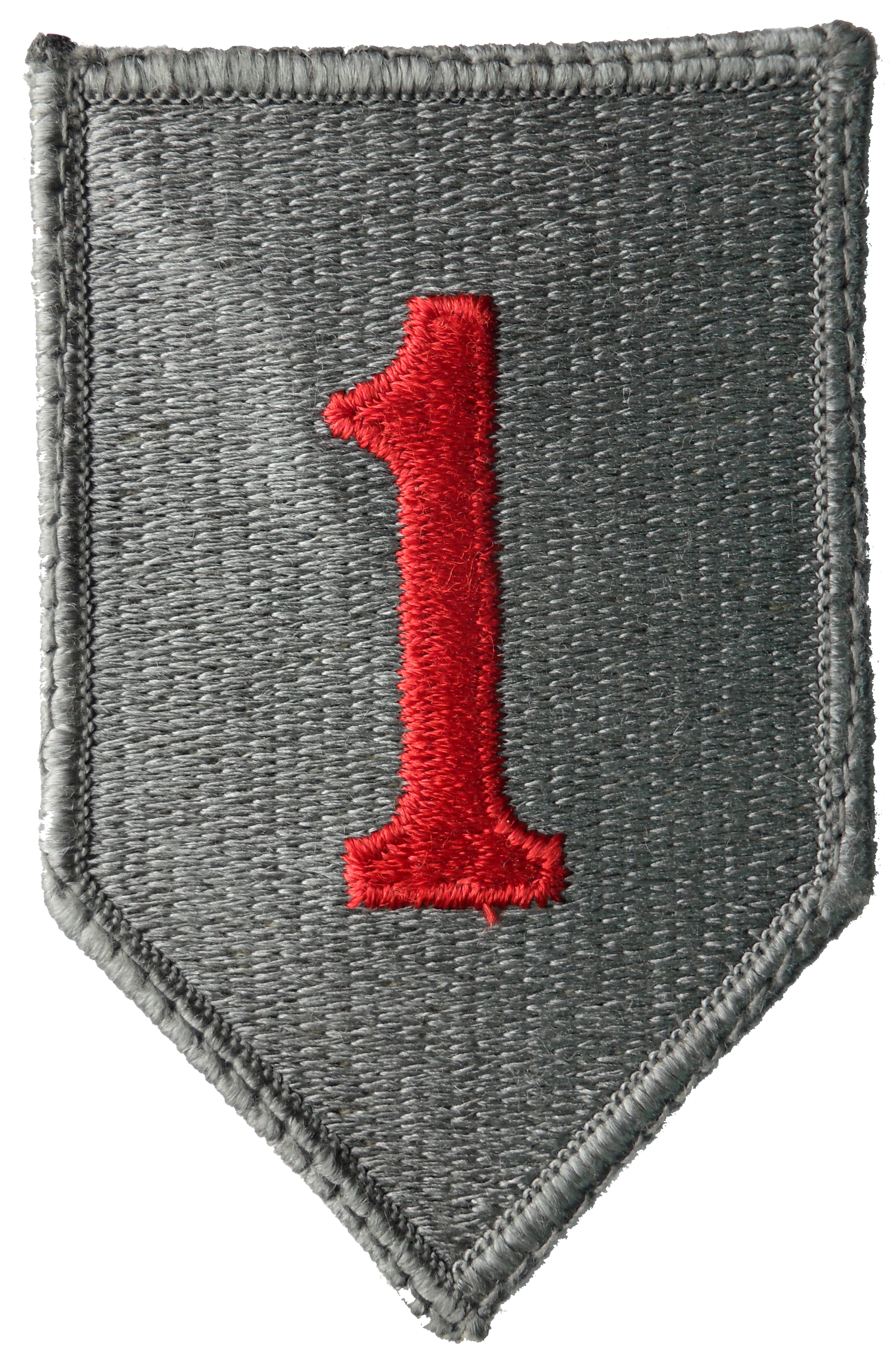 Foliage green tinted, shoulder sleeve insignia of the U.S. Army's 1st Infantry Division. Worn with the Army Dress Uniform.